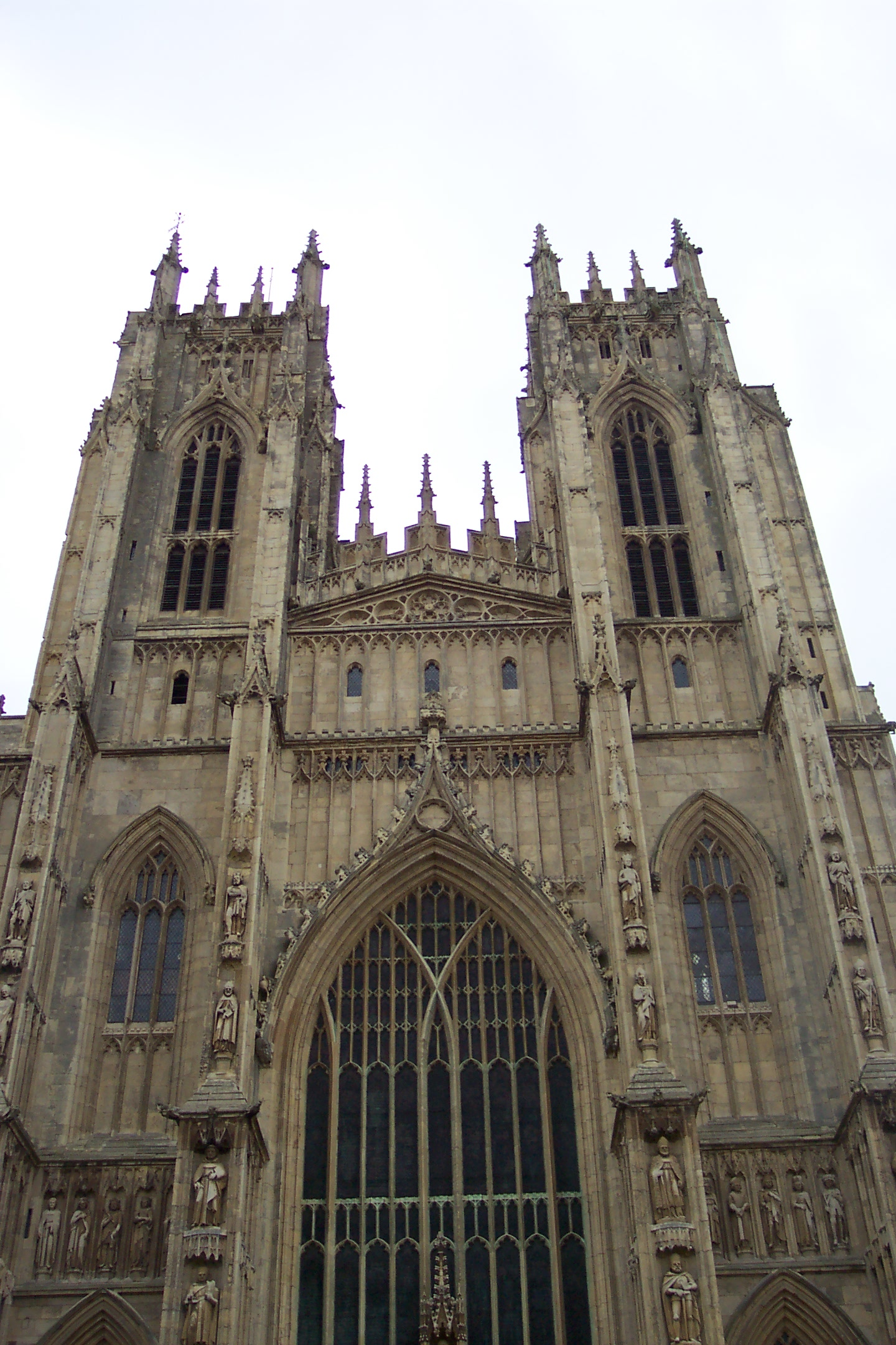 Beverley Minster, Beverley, East Riding of Yorkshire, EnglandTaken by me, User: Lofty. Please, feel free to use it, but I forbid it to be passed off as ones own.